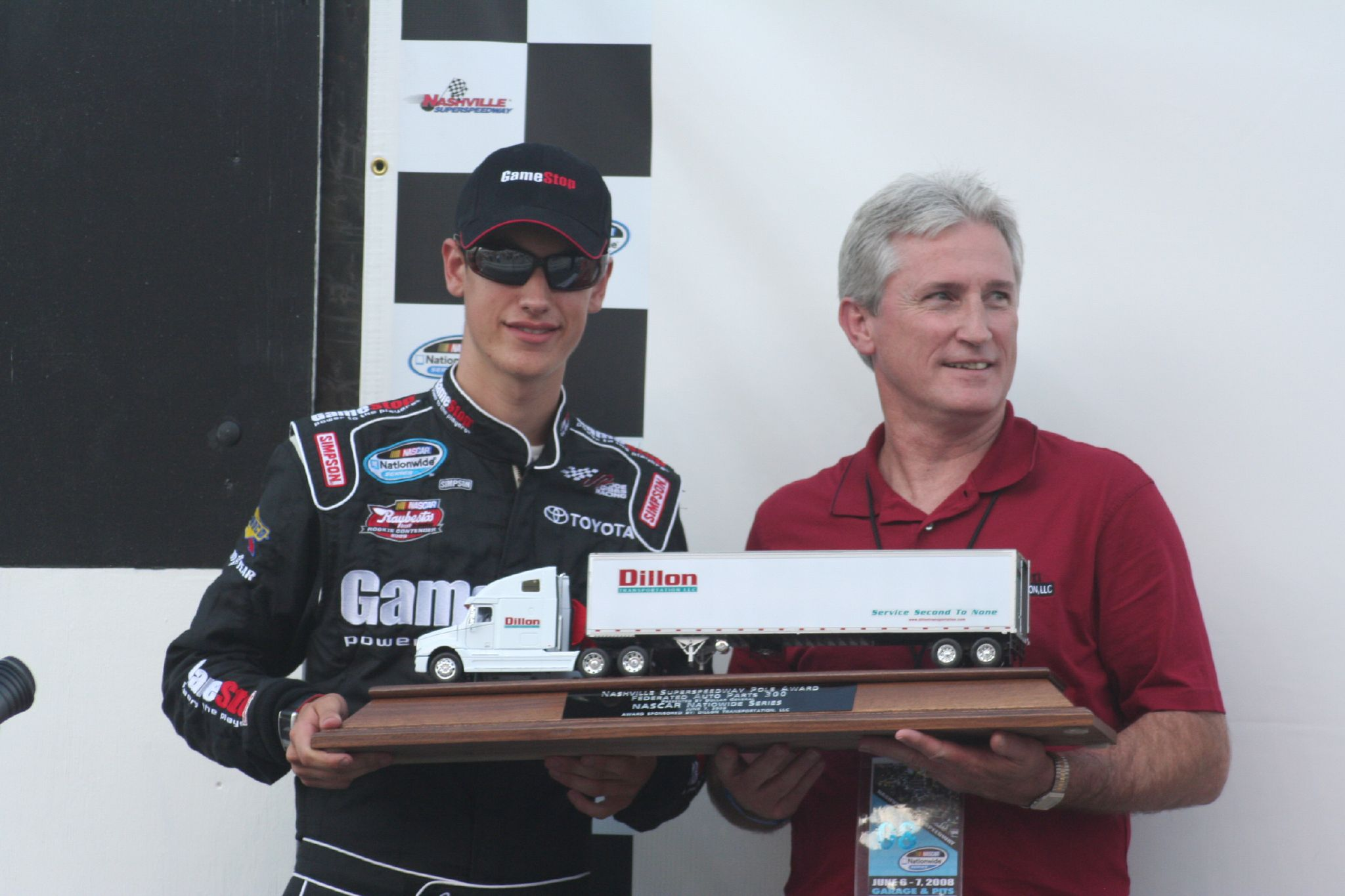 NASCAR driver Joey Logano holds his trophy for winning the pole position at Nashville in his second NASCAR Nationwide Series race. Shot by "The Daredevil" at the June 2008 Nashville Nationwide NASCAR event